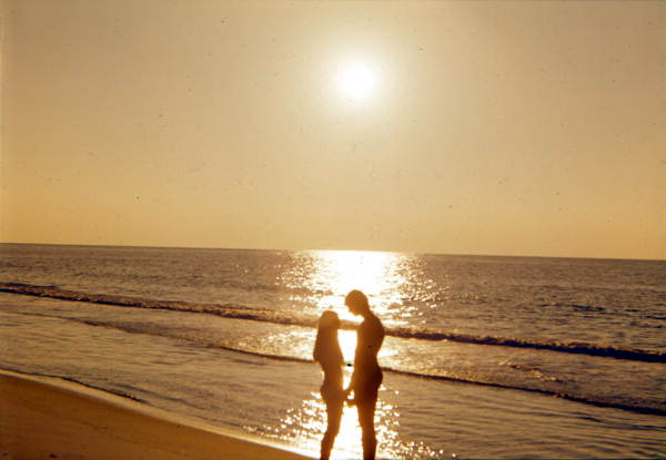 Local call number: DC767198 Title: Couple on the beach at sunset: Fort Walton Beach, Florida Date: October 1970 Physical descrip: 1 transparency - col. - 4 x 5 in. Series Title: Repository: 500 S. Bronough St., Tallahassee, FL 32399-0250 USA. Contact: 850.245.6700. Persistent URL